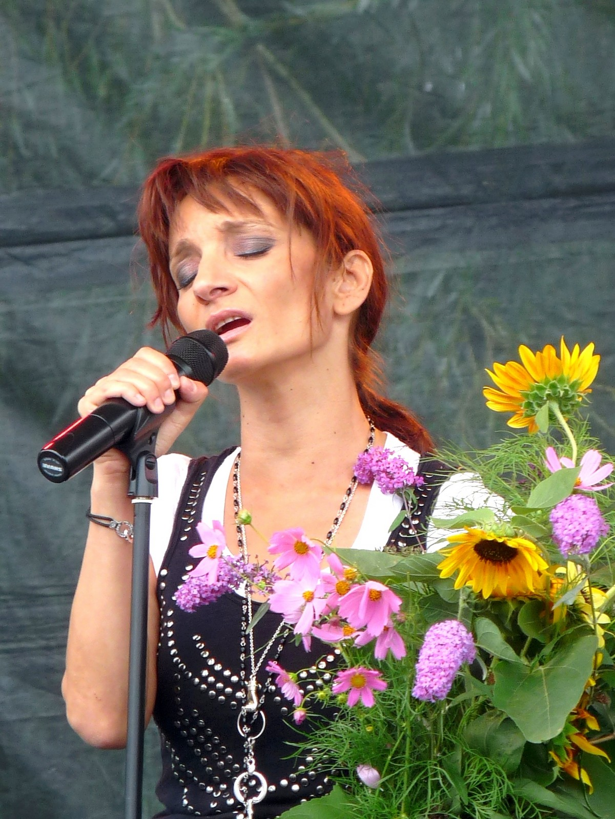 Ildikó Keresztes (1964– ) Hungarian singer and actress on concert in Békásmegyer on the twenty-eighth of August 2010.